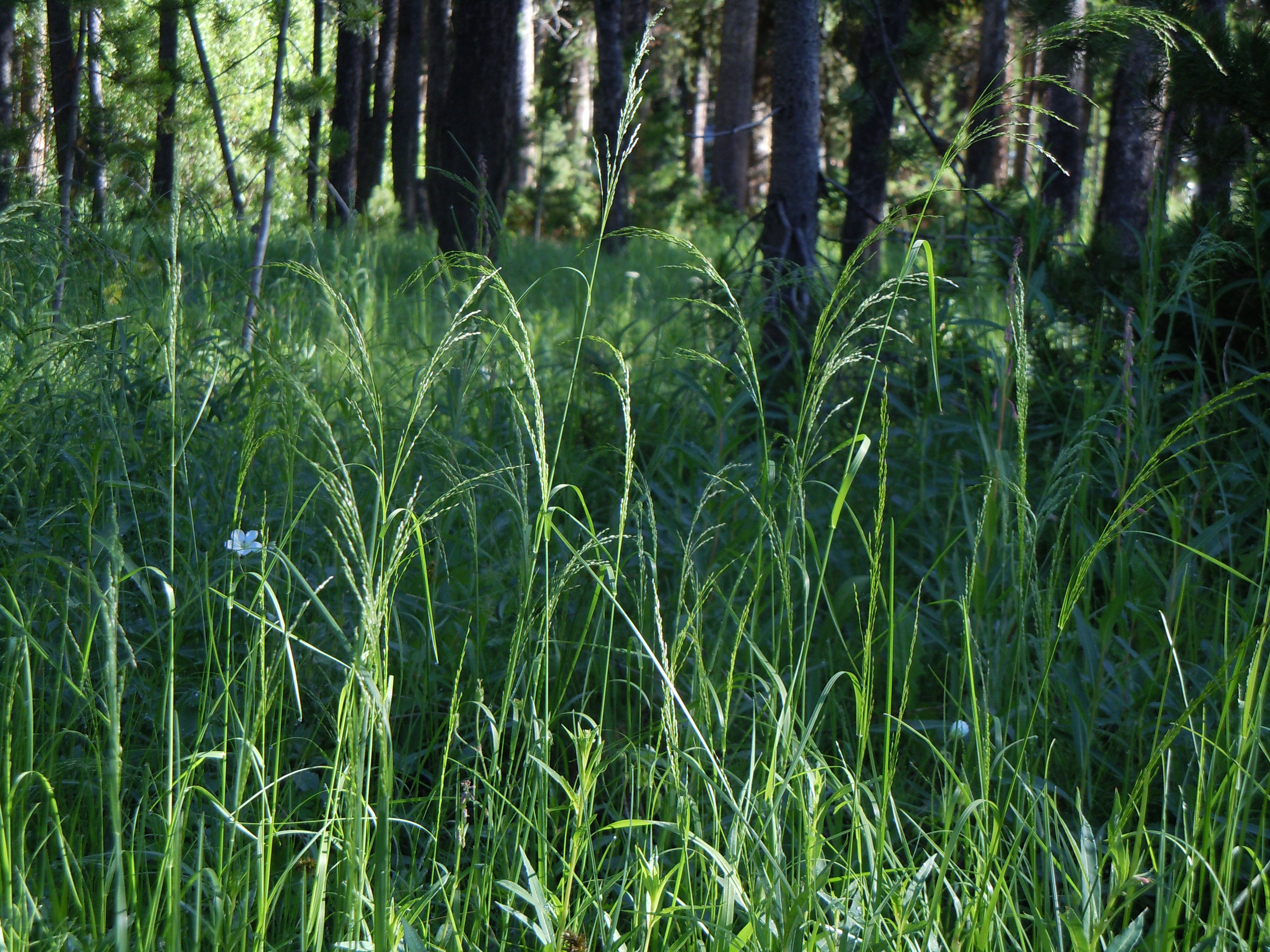 Poa palustris has a diffuse panicle (here not quite fully open) and broad leaves that are concentrated on the stem rather than basally.